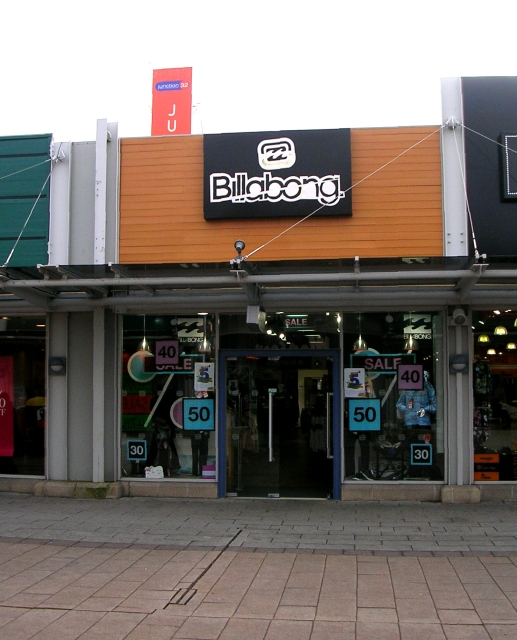 Billabong - Junction 32